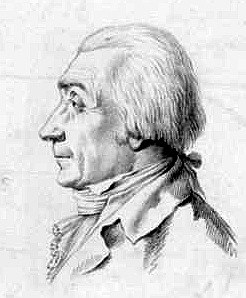 French conductor and composer Jean-Baptiste Rey (1734-1810) after a drawing by Pierre-Narcisse Guérin (1774–1833).